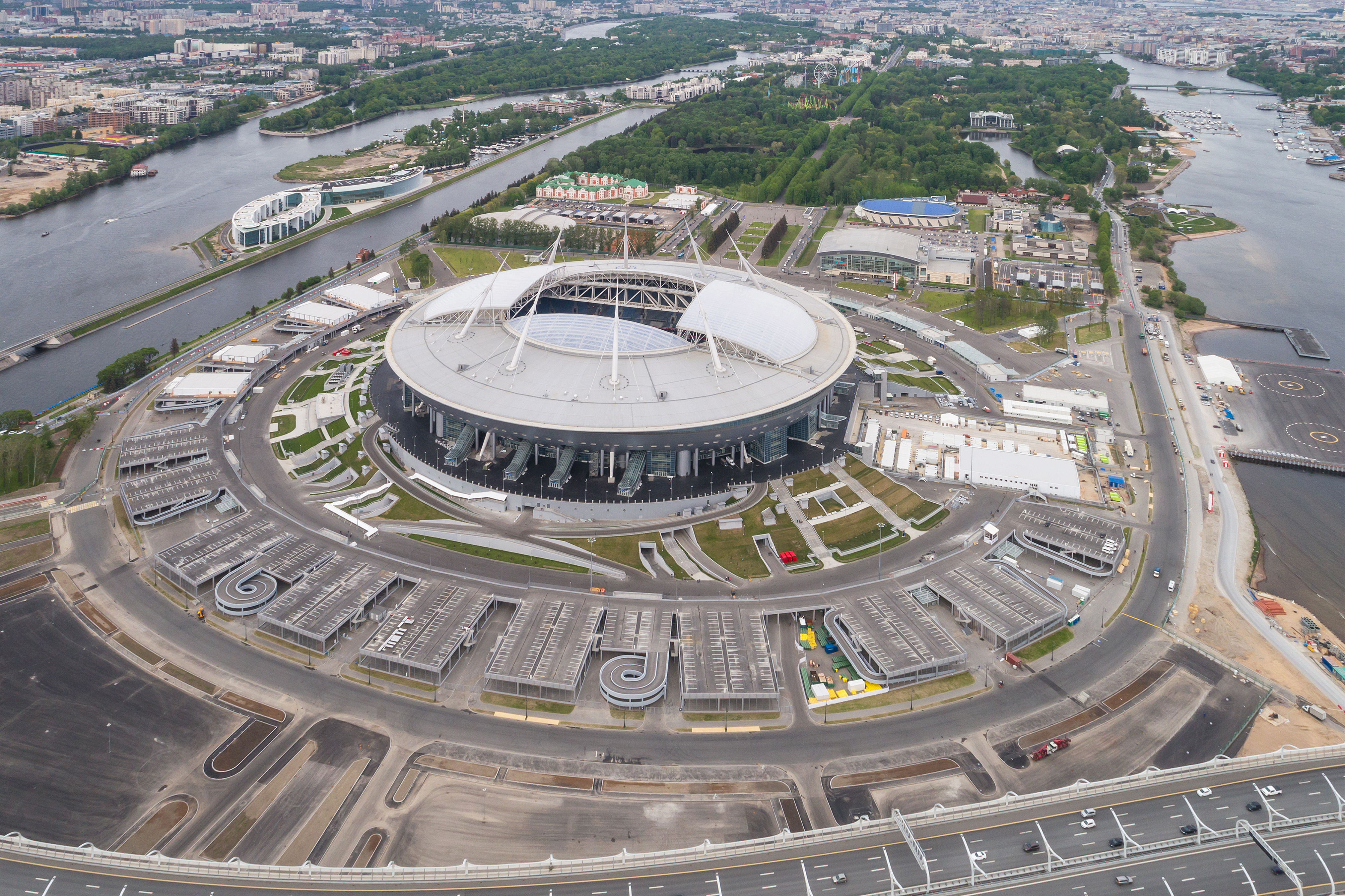 Aerial photo of Krestovsky Stadium in Saint Petersburg (Russia).